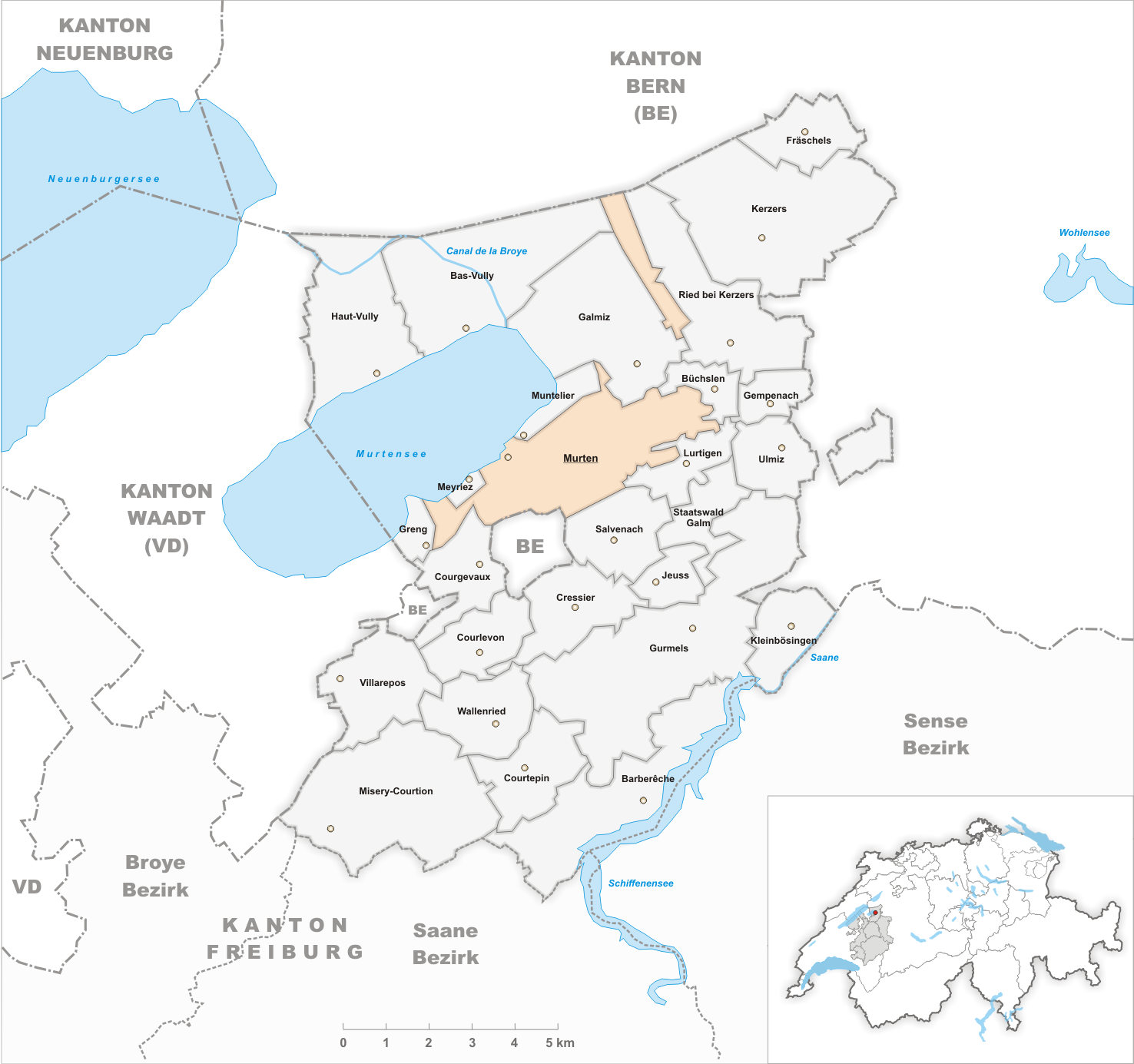 Municipality Murten